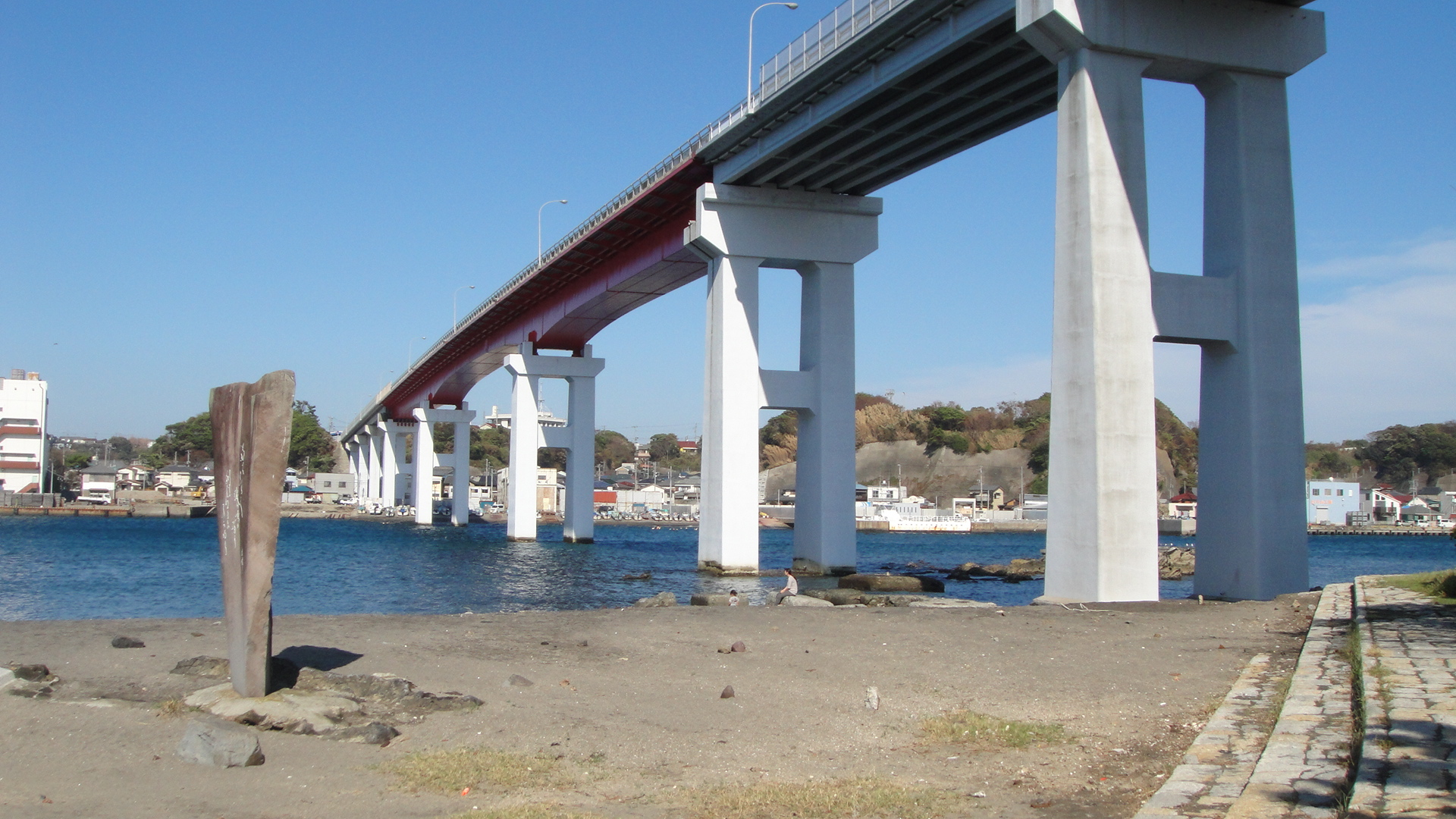 Jōgashima ōhashi bridge and Hakusyuuhi in Jōgashima, Kanagawa